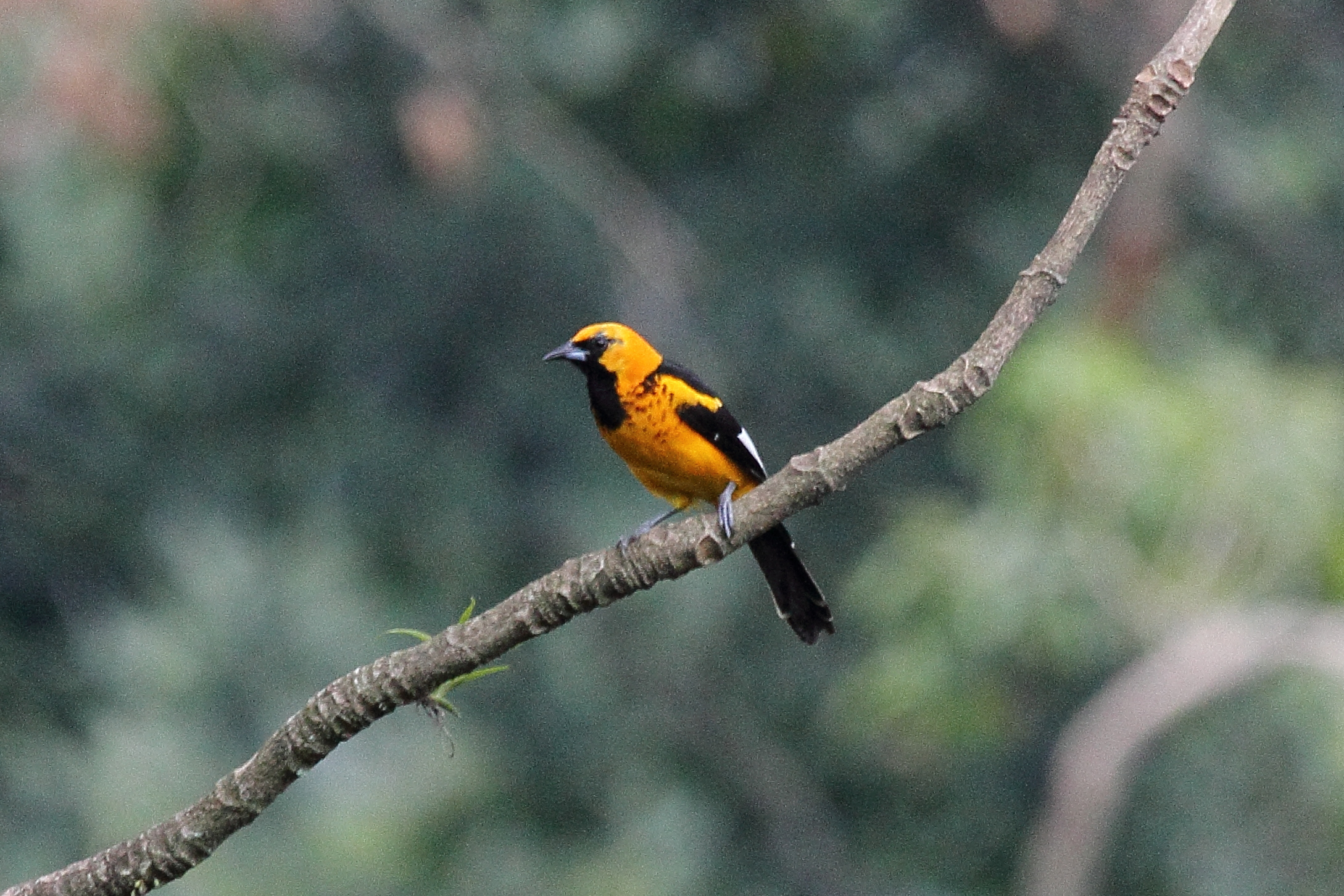 Spot-breasted Oriole (Icterus pectoralis). Photographed at Finca Patrocinio, Guatemala.